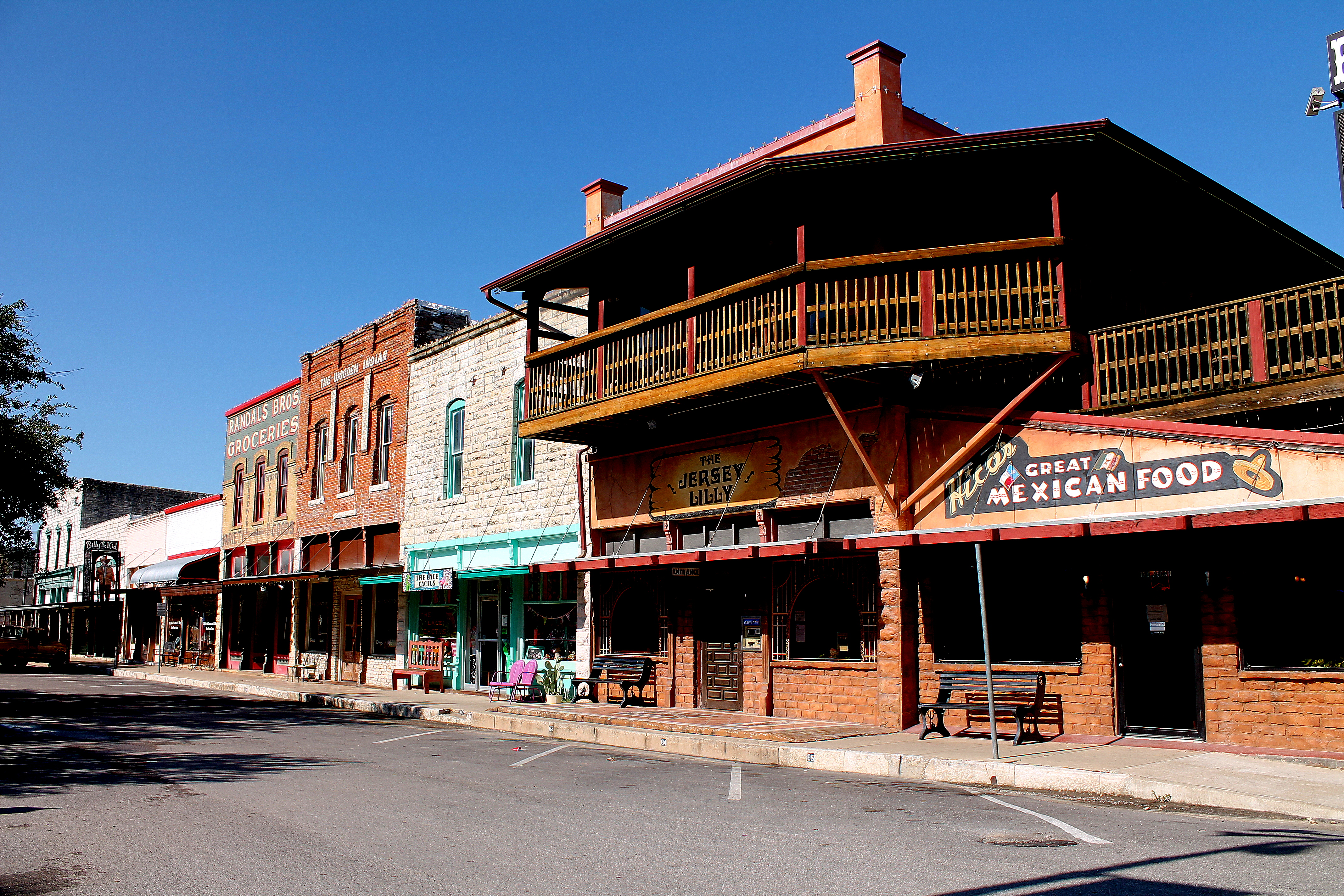 The town of Hico,Texas